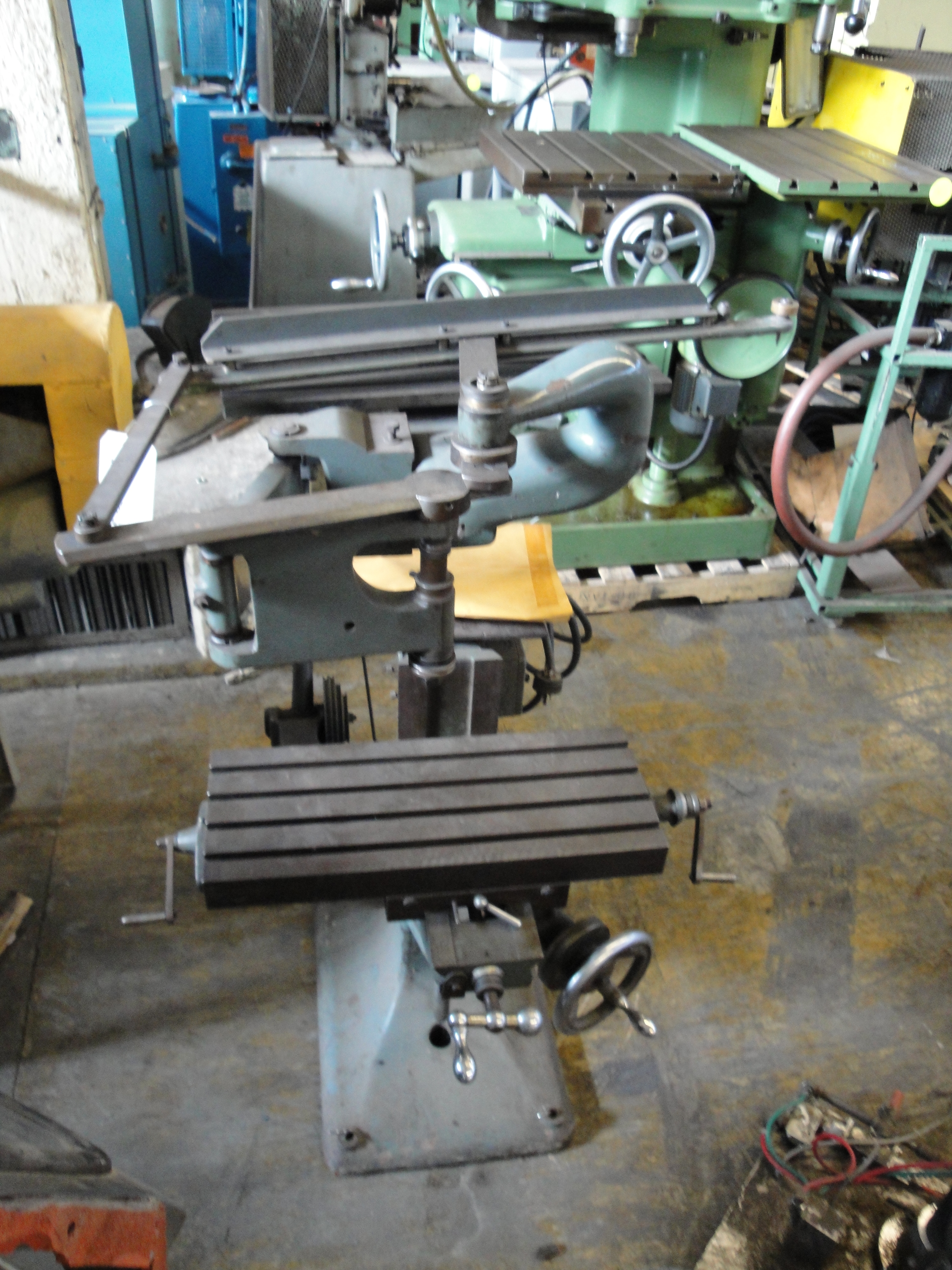 A view of a pantograph milling machine, showing the parallelogram structure, the tracer stylus (with roller tip), the main spindle, and the table. These machines were especially important before CNC became ubiquitous.